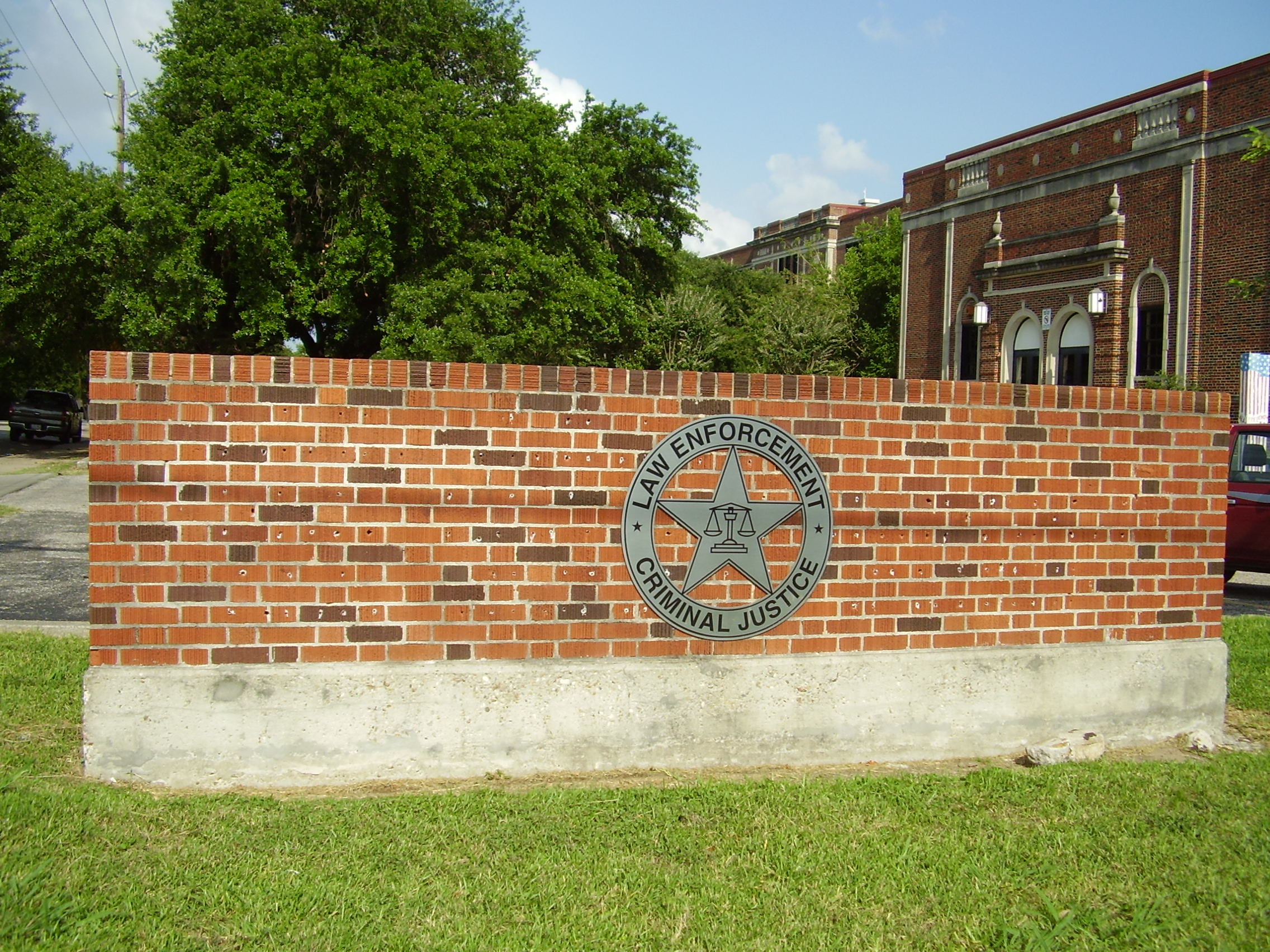 High School for Law Enforcement and Criminal Justice sign